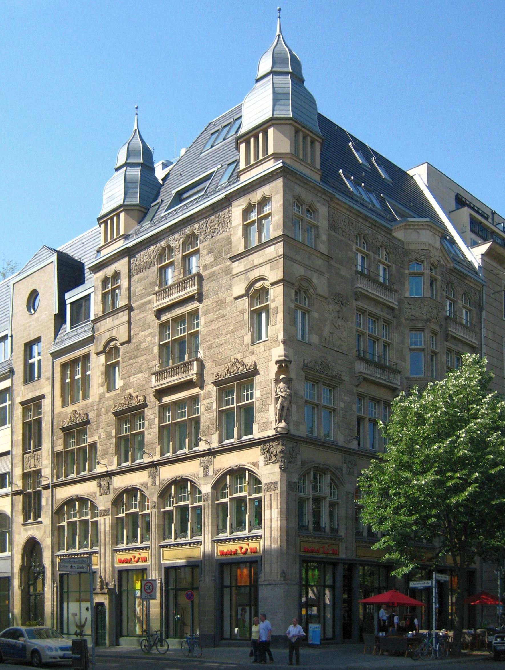 The former "Hotel Carlton" in Berlin-Mitte, Unter den Linden 17, corner of Charlottenstraße. It was built in 1902; architect Carl Gause also designed the more famous (old) "Hotel Adlon" at Pariser Platz. The building is landmarked.